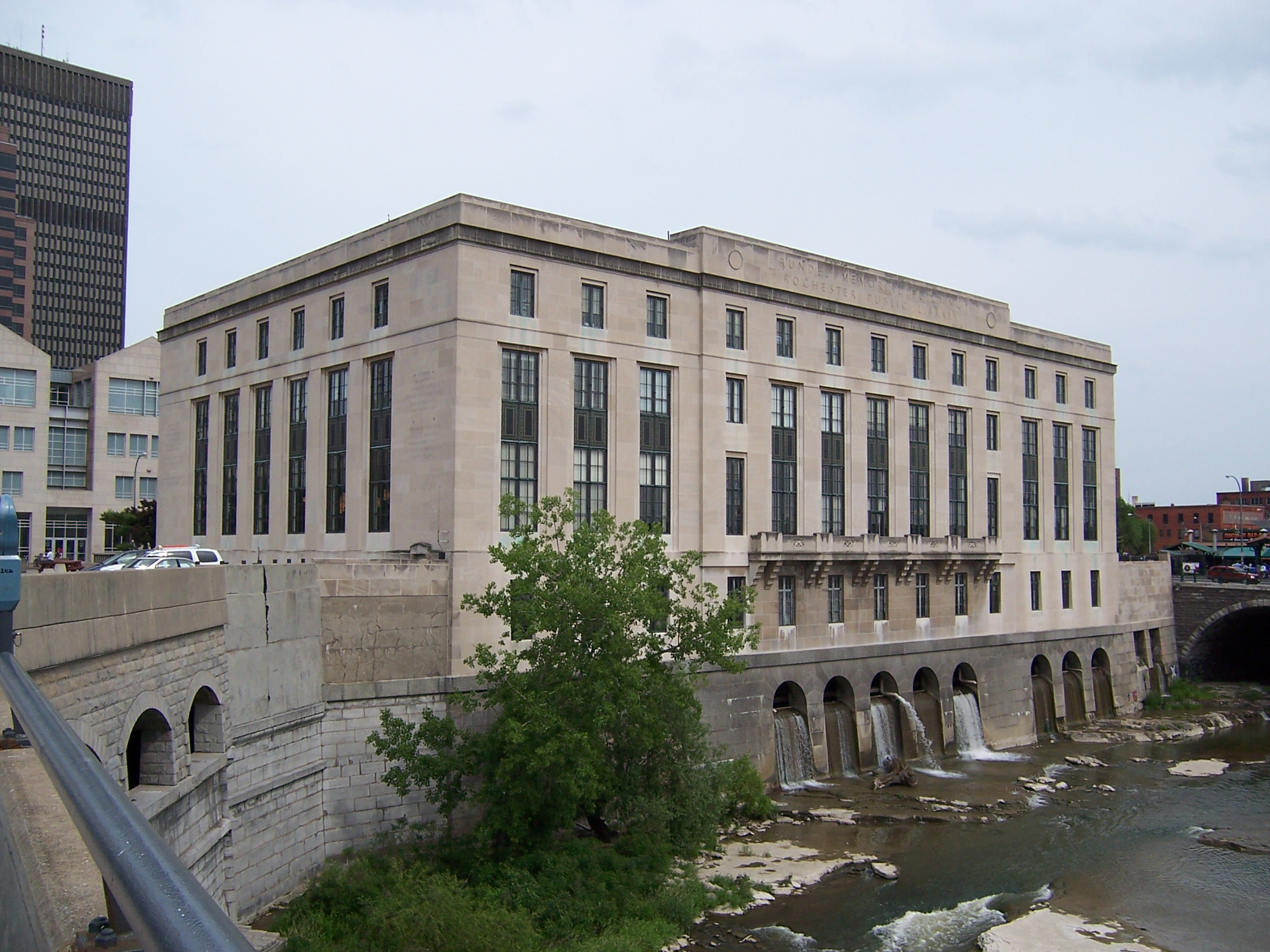 The back of the Rundel Memorial Library in downtown Rochester, New York. The Erie Canal once flowed through the passage underneath the building, through which water still spills into the Genesee River. The photo was taken from the Broad Street Bridge. The Court Street Bridge begins at the right edge of the photo. Xerox Tower is the dark gray building on the left side of the image.